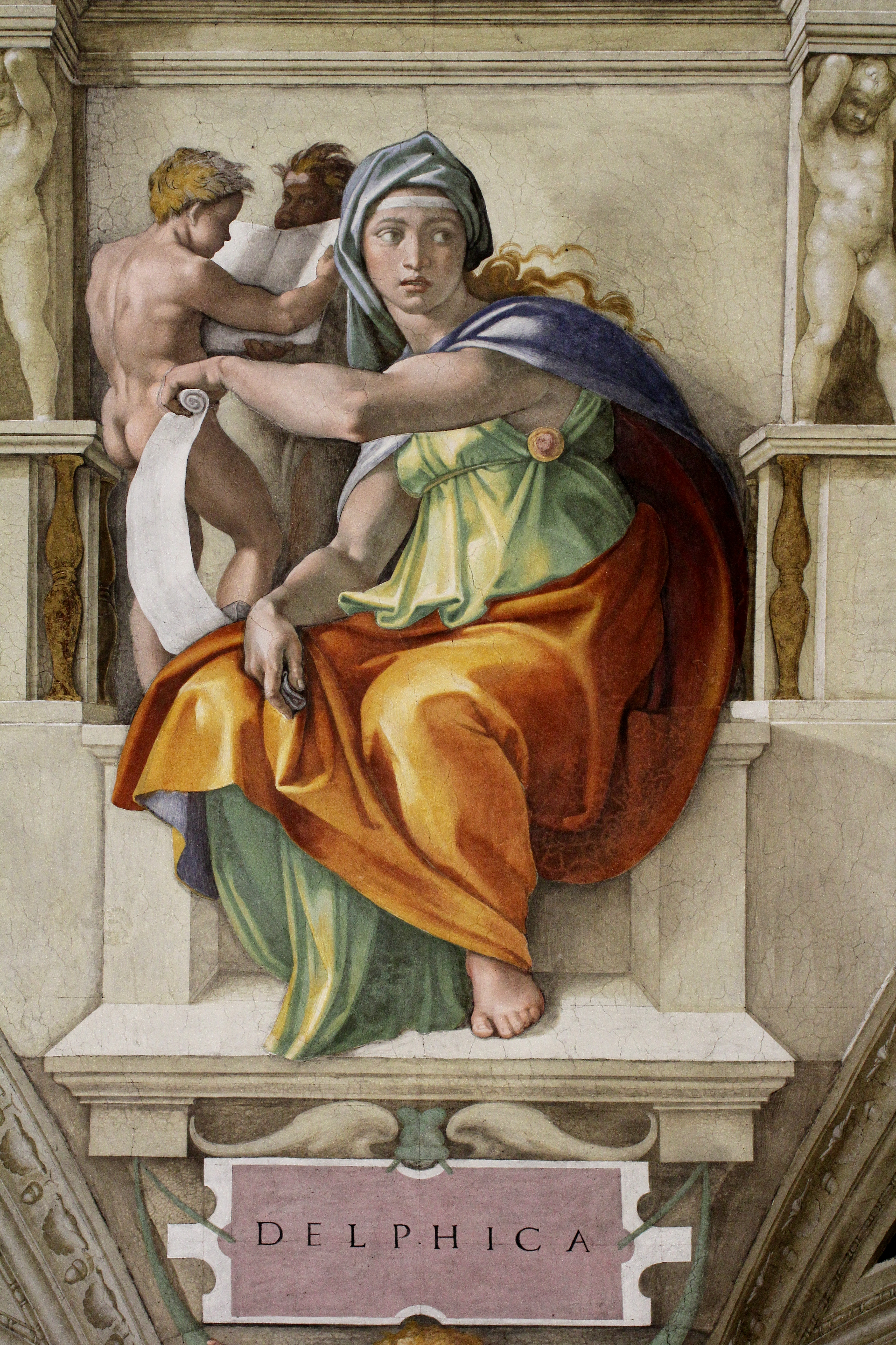 Delphic Sibyl, fresco painted by Michelangelo (1475-1564), Sistine Chapel Ceiling (1508-1512) Rome, Vatican